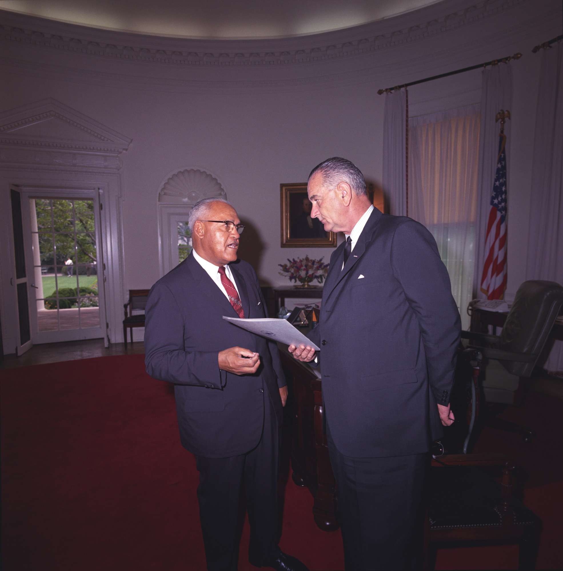 President of the United Negro College Fund Frederick D. Patterson in the Oval Office with President Lyndon Johnson in 1964.